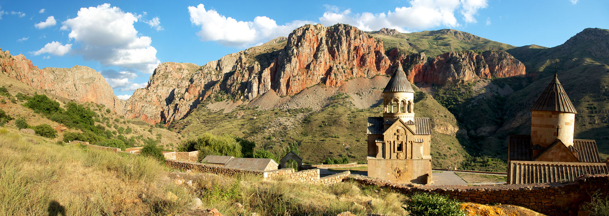 Panorama of the Armenian monastery Noravank in Armenia's mountainous Vayots Dzor region.